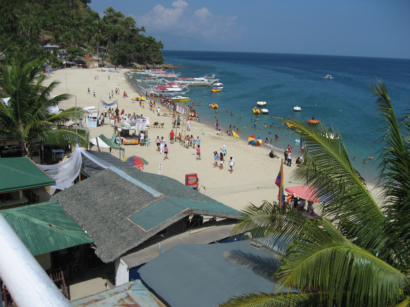 White Beach in Puerto Galera, Oriental Mindoro, Philippines, looking towards the west end.